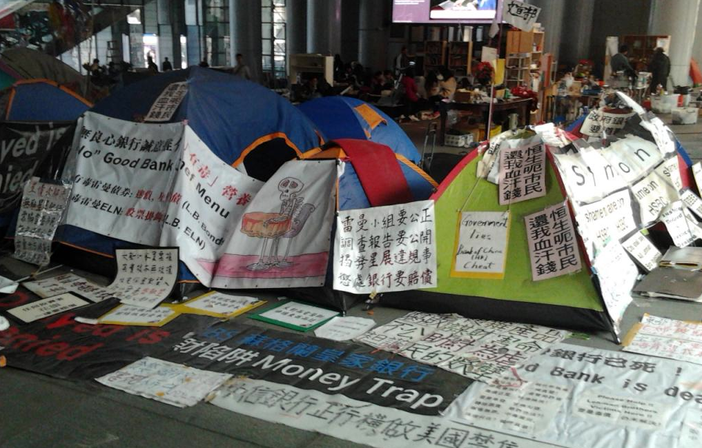 Scene of the 'Occupy Central' movement